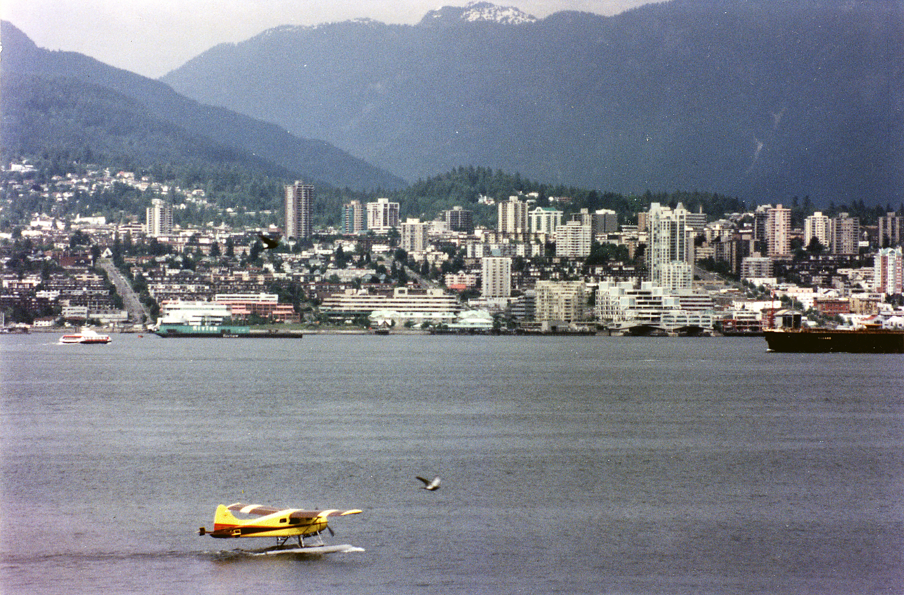 North Vancouver, Canada, with a floatplane in foreground. Taken in 1995.North Vancouver with floatplane